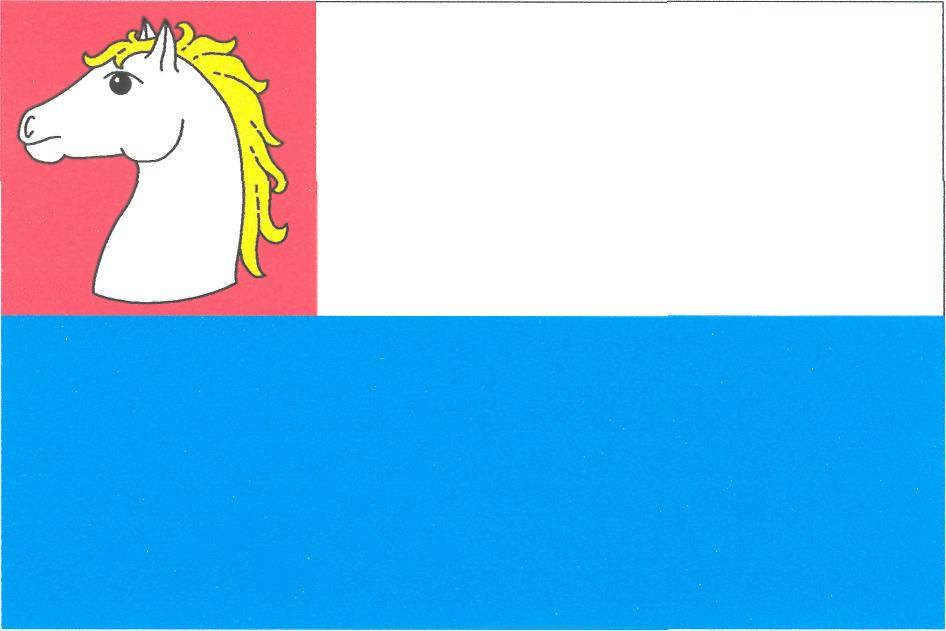 Municipal flag of Kostelní Hlavno , District Prague East, Czech Republic